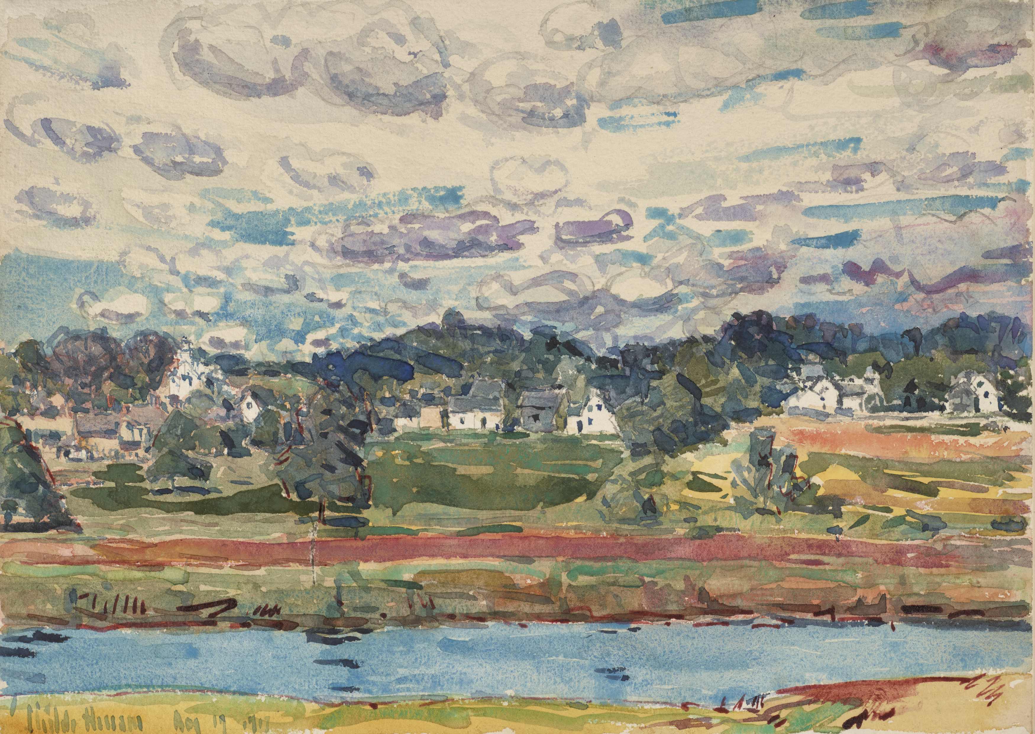 Childe Hassam, American, 1859–1935 Newfields, New Hampshire, 1917 Watercolor over graphite on cream wove paper 25.2 x 35.2 cm. (9 15/16 x 13 7/8 in.) Gift of the American Academy and Institute of Arts and Letters x1944-566 Hassam is best known for his vibrant paintings of New York City at the turn of the century. Executed later in his career, this sun-drenched landscape depicts the white-clapboard buildings of Newfields and the sparkling Squamscott River from the vantage point of Whitcomb Farm in Stratham, New Hampshire, where the artist spent several summers. Painted during World War I, this work displays the same varied palette and active brushwork as Hassam’s paintings of flag-draped Fifth Avenue.